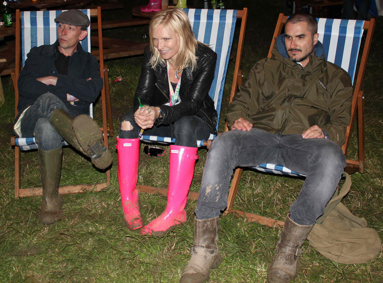 Steve Lamacq, Jo Whiley and Zane Lowe sitting on deckchairs backstage at BBC Introducing stage